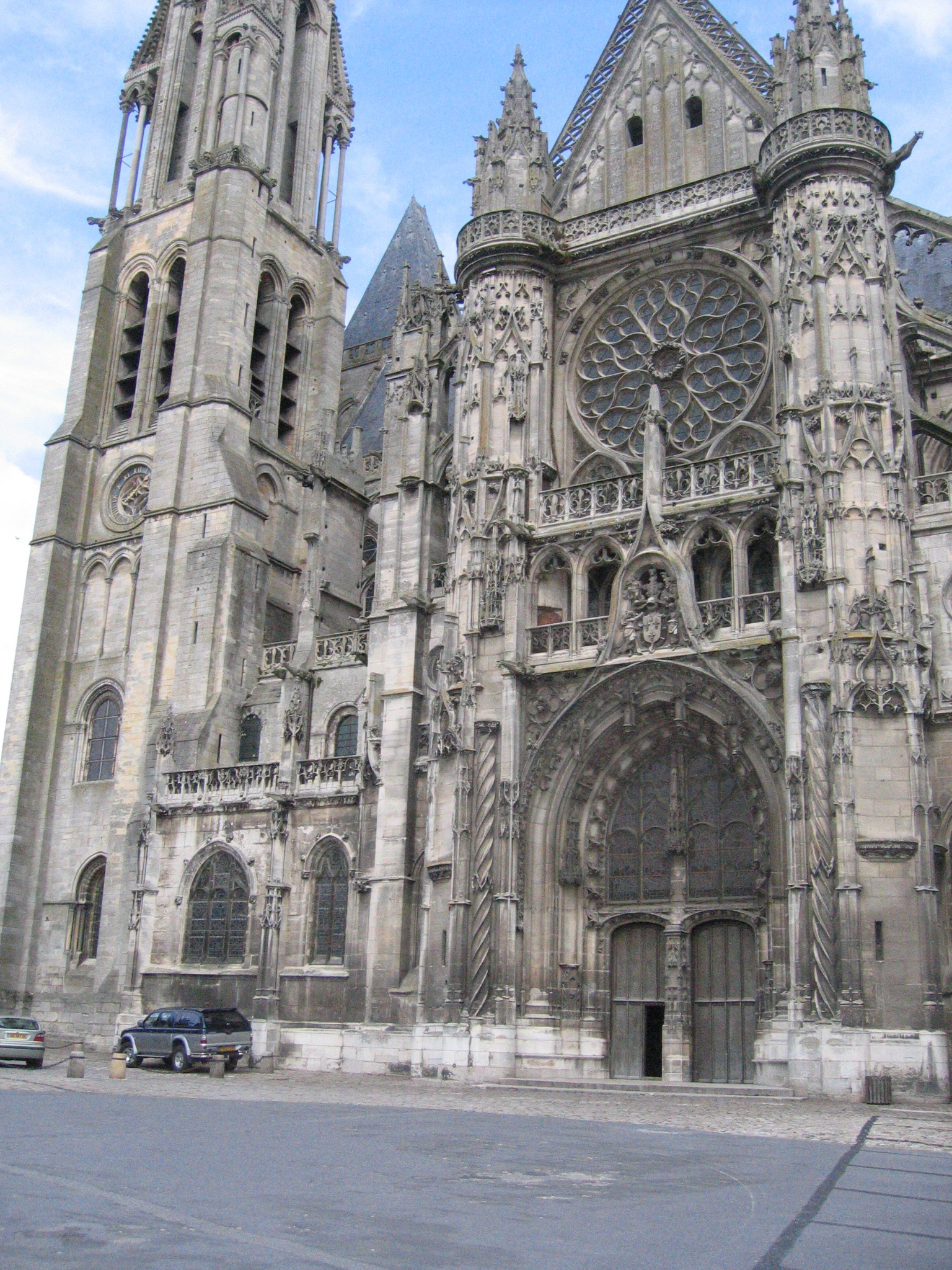 Senlis, cathedral Notre-Dame, fassade of transsept.